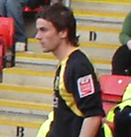 Arron Davies taking a corner at Cheltenham for Yeovil.